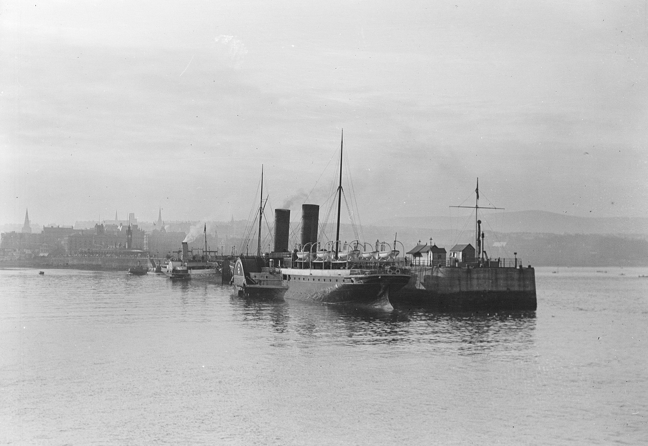 Reproduction ID: P00039 Maker: Unknown Date: Unknown Materials: Gelatine dry plate Henley Collection